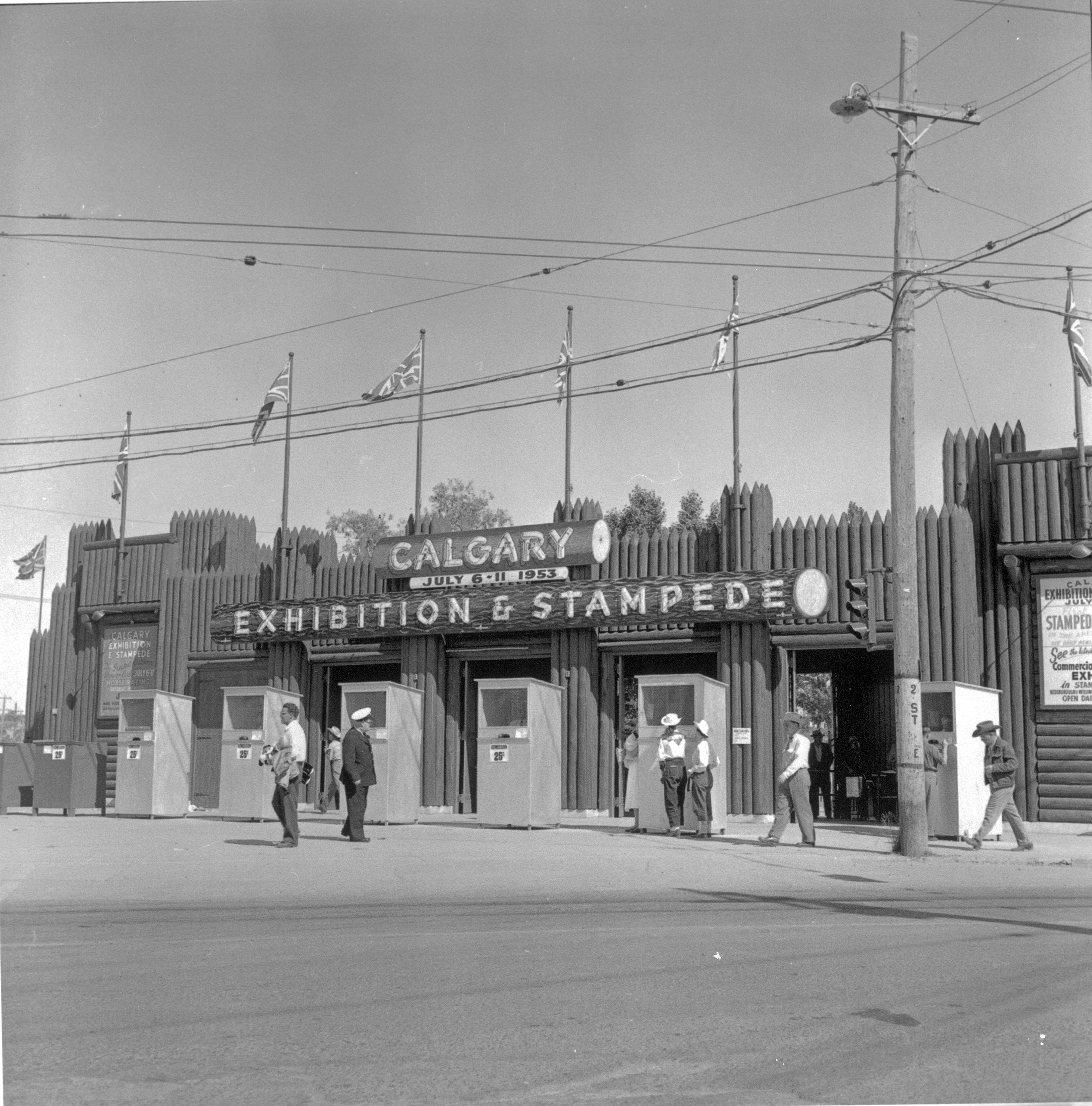 1953. A8514.